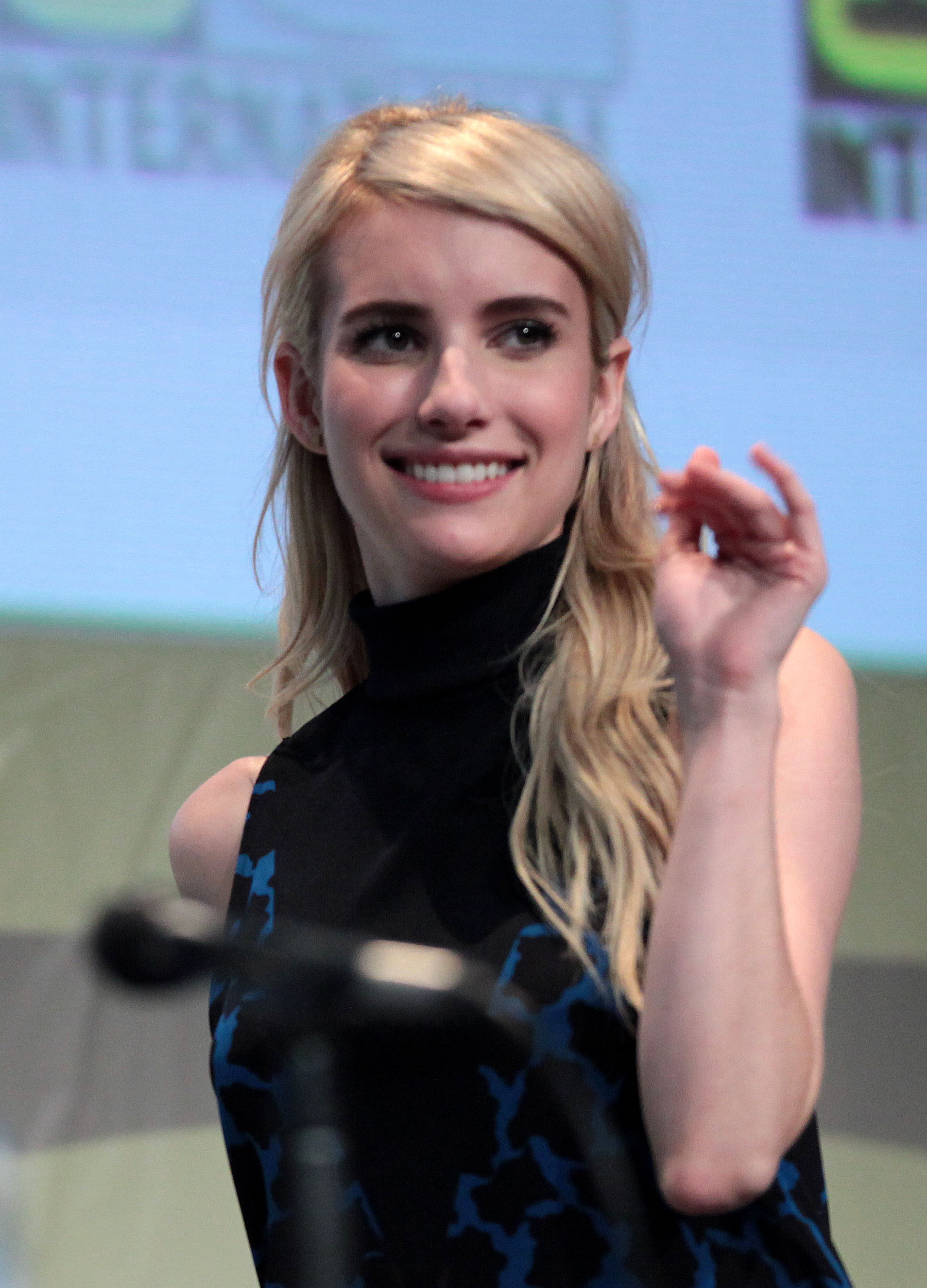 Emma Roberts speaking at the 2015 San Diego Comic-Con International, for "Scream Queens", at the San Diego Convention Center in San Diego, California.